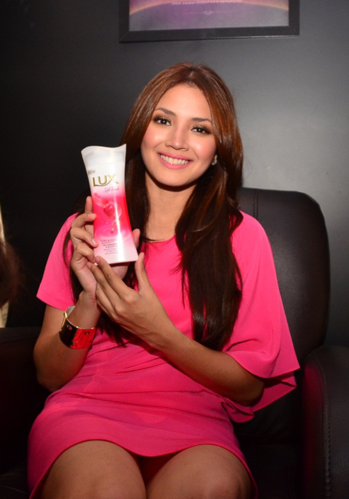 Fazura being a spokesperson for a soap